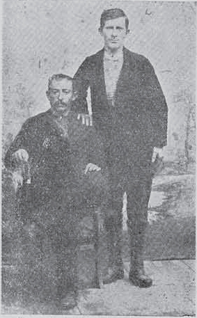 Lazar Bitsanov and Hristo Ivanov Lerin IMARO